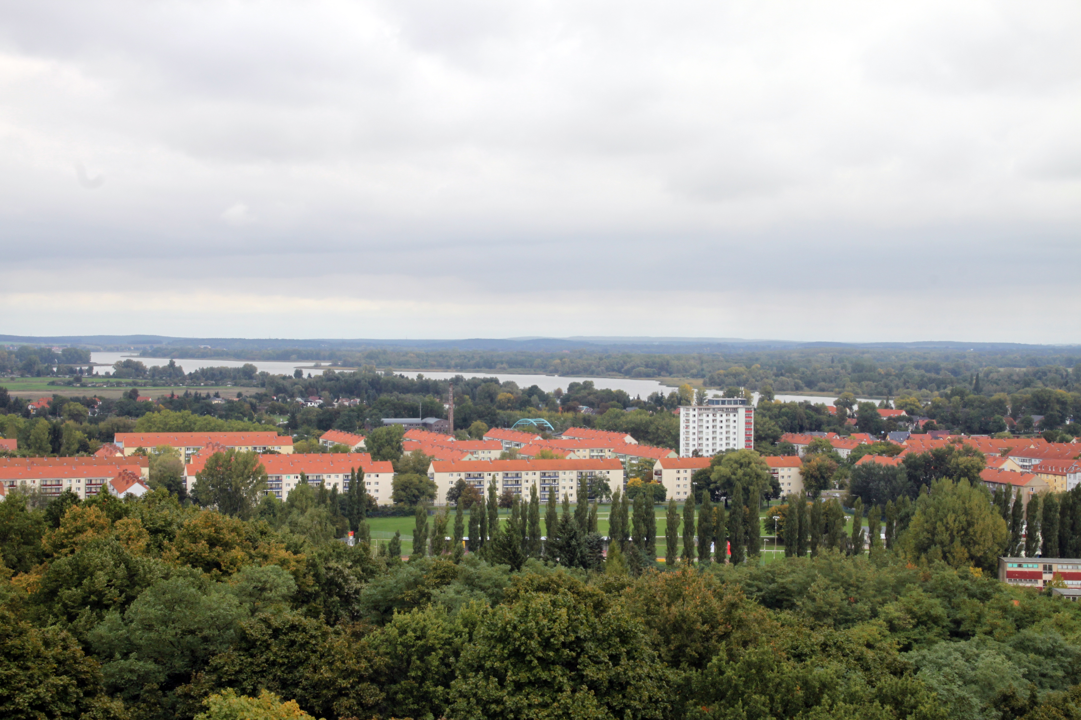 The northeastern part of the borough Nord of Brandenburg-City, seen from south.